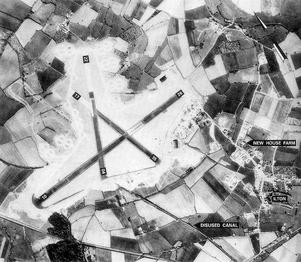 Aerial photograph of Merryfield Airfield, England.